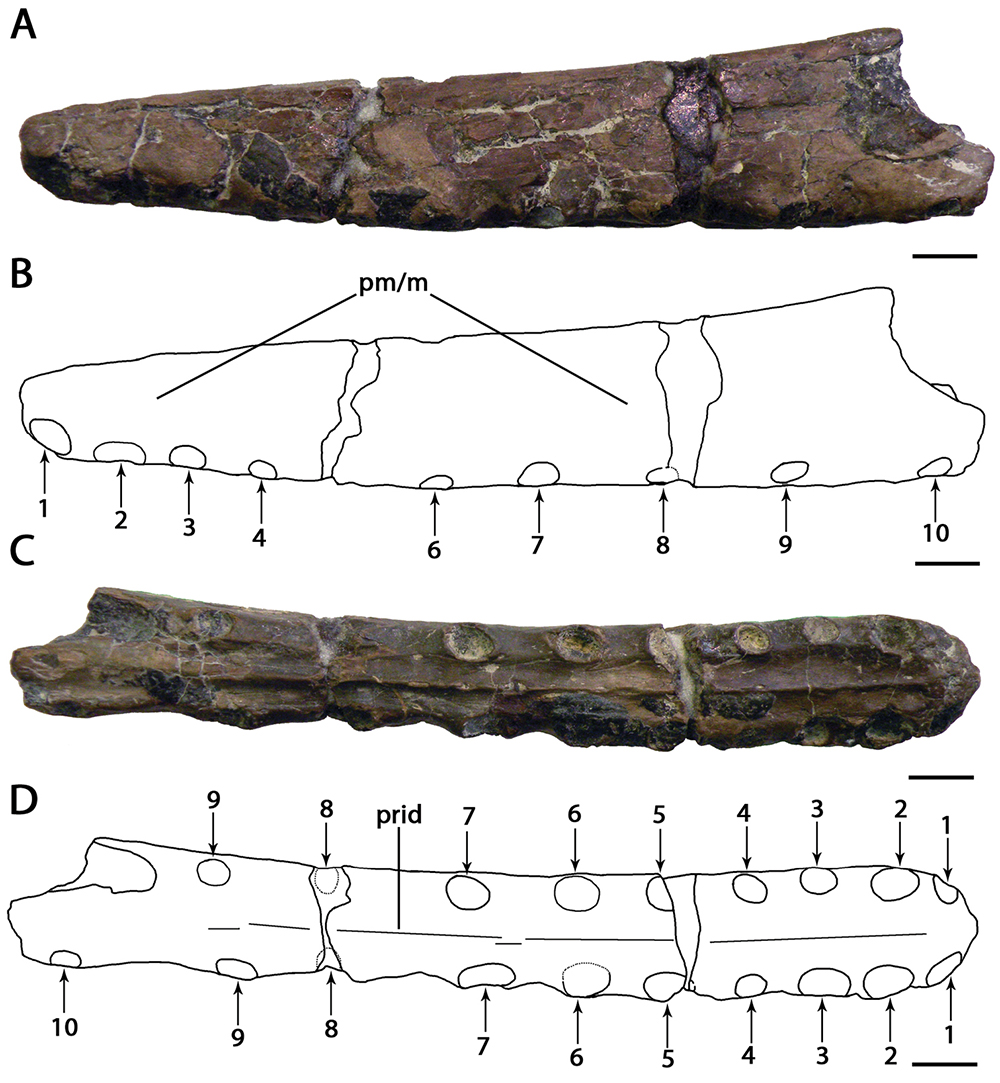 Camposipterus nasutus comb. n. Holotype CAMSM B 54556 (Albian, Cambridge Greensand), anterior part of the rostrum A left lateral view B respective line drawing C ventral view D respective line drawing. Abbreviations: m – maxillae, pm – premaxillae, prid – palatal ridge. Arrows and numbers indicate alveoli or teeth and their respective position. Scale bar = 10 mm.